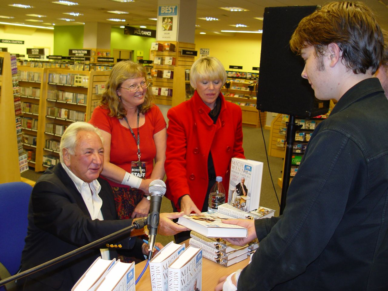 Michael Winner at book signing. Photo by Phil Guest